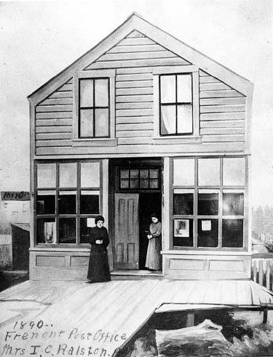 First post office in Fremont, Seattle, Washington, 1890 Photographer: Unknown Subjects (LCSH): Fremont Post Office (Seattle, Wash.) Post office buildings--Washington (State)--Seattle Ralston, I. C., Mrs. Postmasters--Washington (State)--Seattle Women postal service employees--Washington (State)--Seattle Clater, Bertha Eastov Fremont (Seattle, Wash.) Digital Collection: Seattle Photograph Collection Item Number: SEA0022 Persistent URL: Visit Special Collections page for information on ordering a copy. University of Washington Libraries. Digital Collections